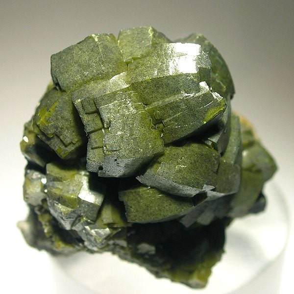 Pyromorphite Locality: Mercur Mine, Bad Ems, Bad Ems District, Lahn valley, Rhineland-Palatinate, Germany (Locality at ) Size: 3.5 x 2.9 x 2.6 cm. A fine, complete-all-around, miniature specimen of the classic forest-green pyromorphite that set the standard from this famous locality for colored pyromorphite. This is a superb miniature, with typical dark olive color. Ex. Dr. Gary Hansen Collection.